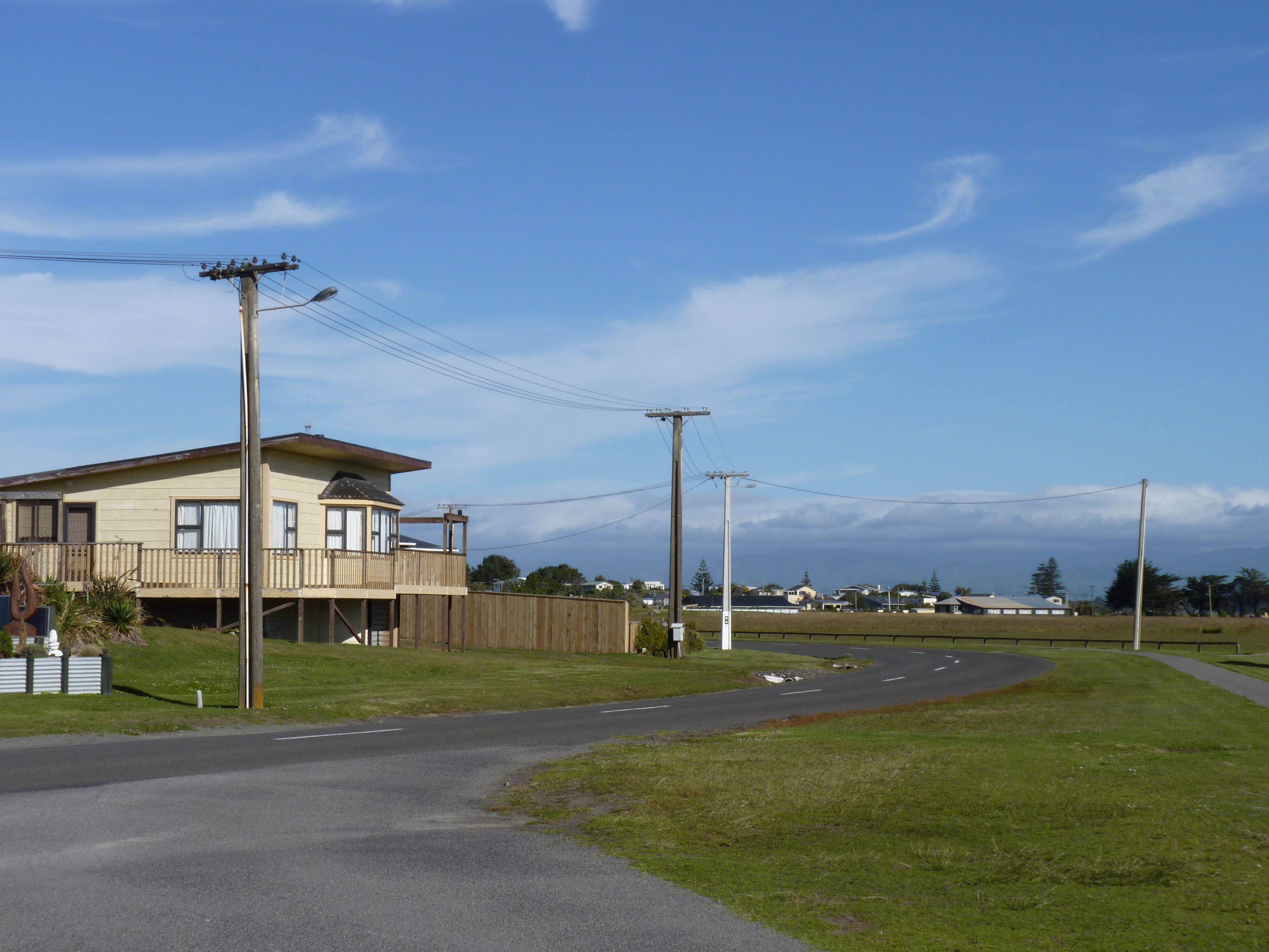 Foxton Beach, Manawatu-Wanganui region, New Zealand